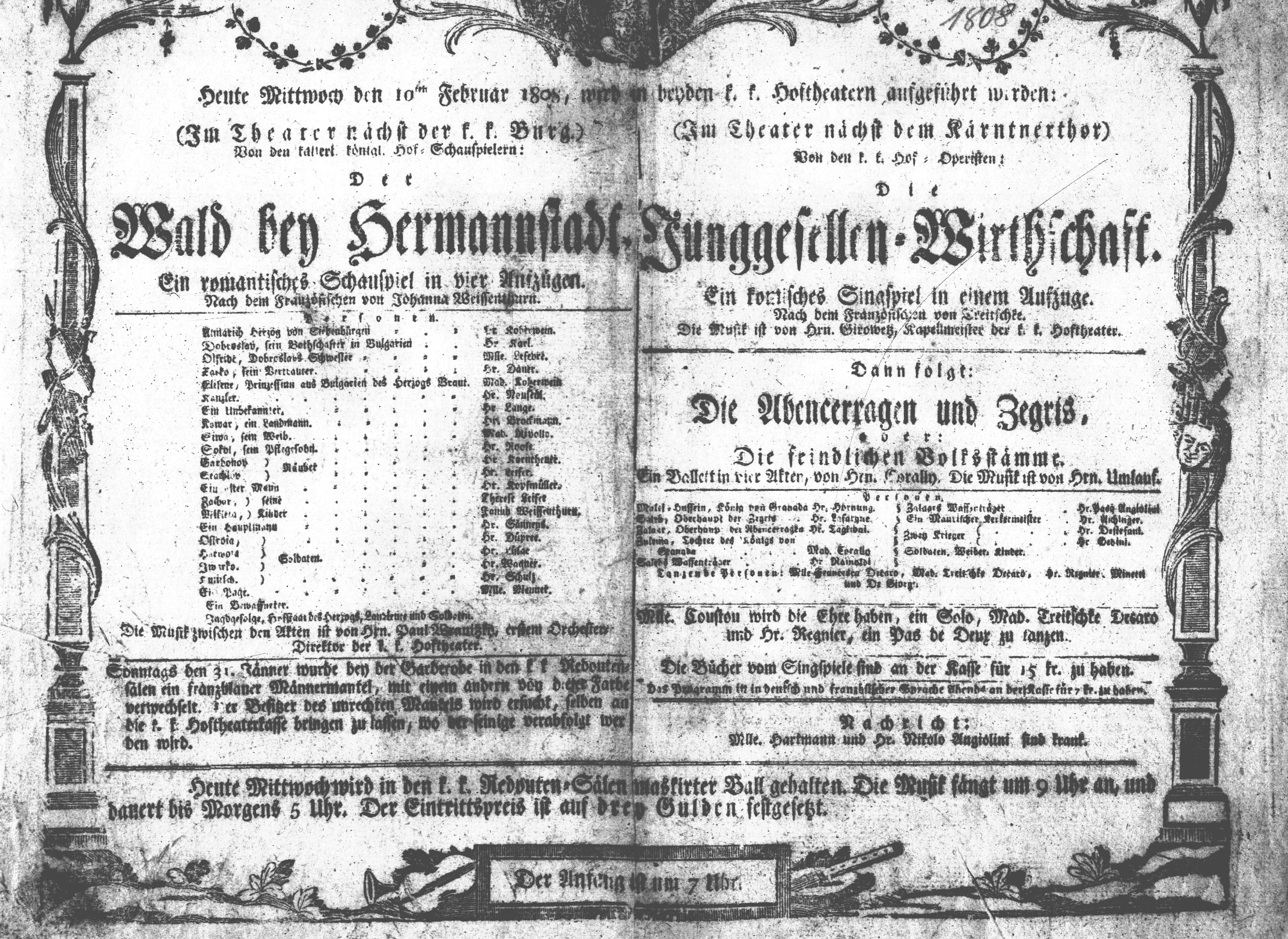 Theatreplacard